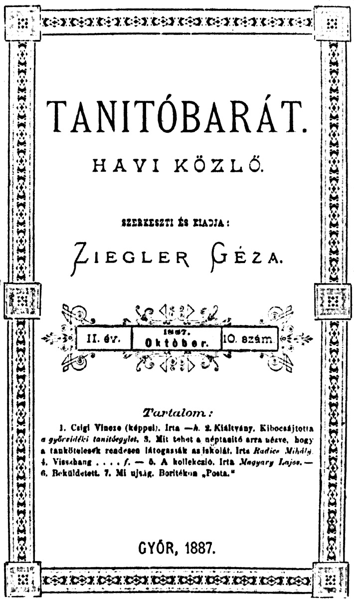 The cover of Hungarian education periodical Tanítóbarát from 1887